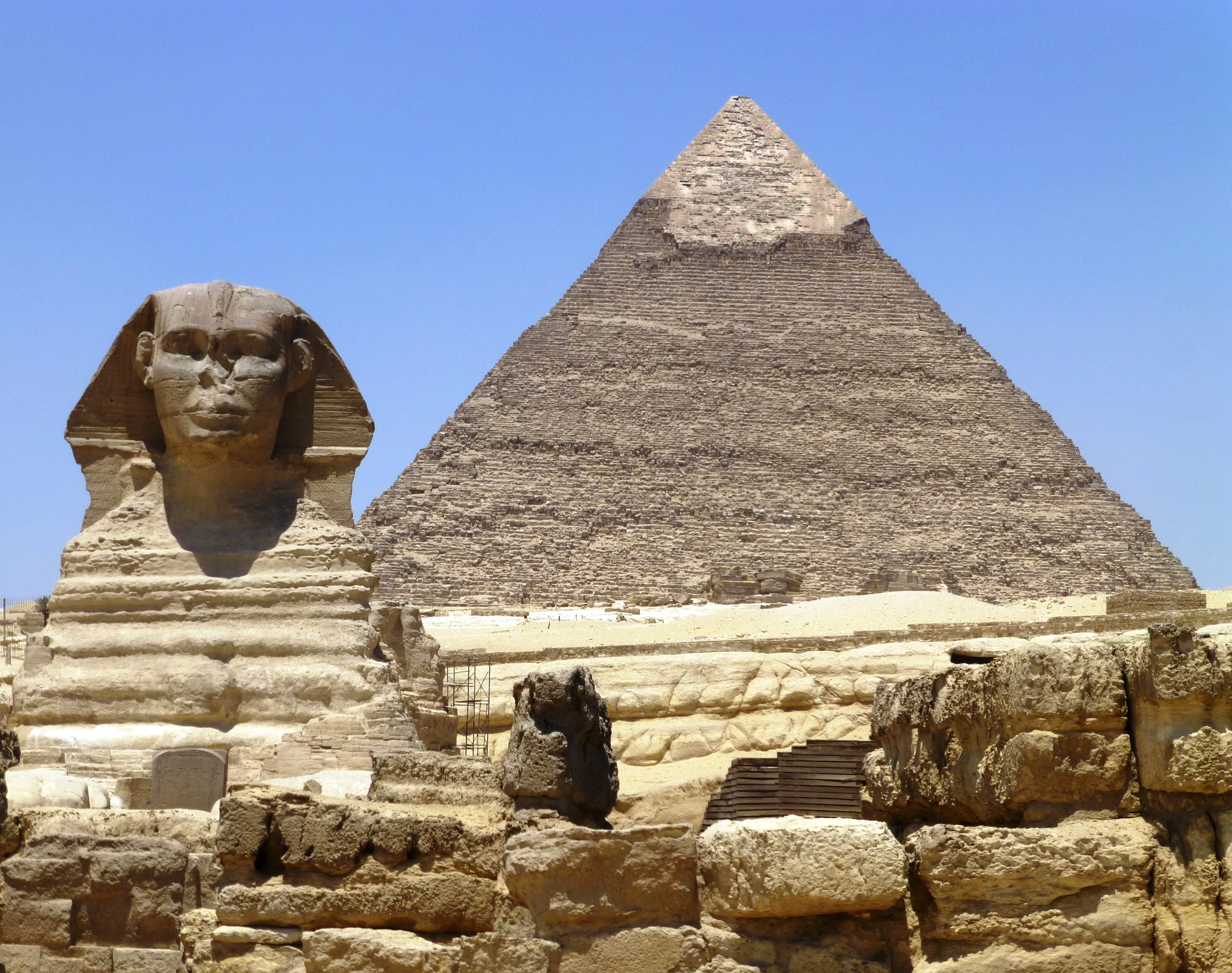 The Great Sphinx with the Kafra Pyramid in the background. An image very similar to this can be seen at the beginning of the "Father Brown" tv episode "The Curse of Amenhotep".